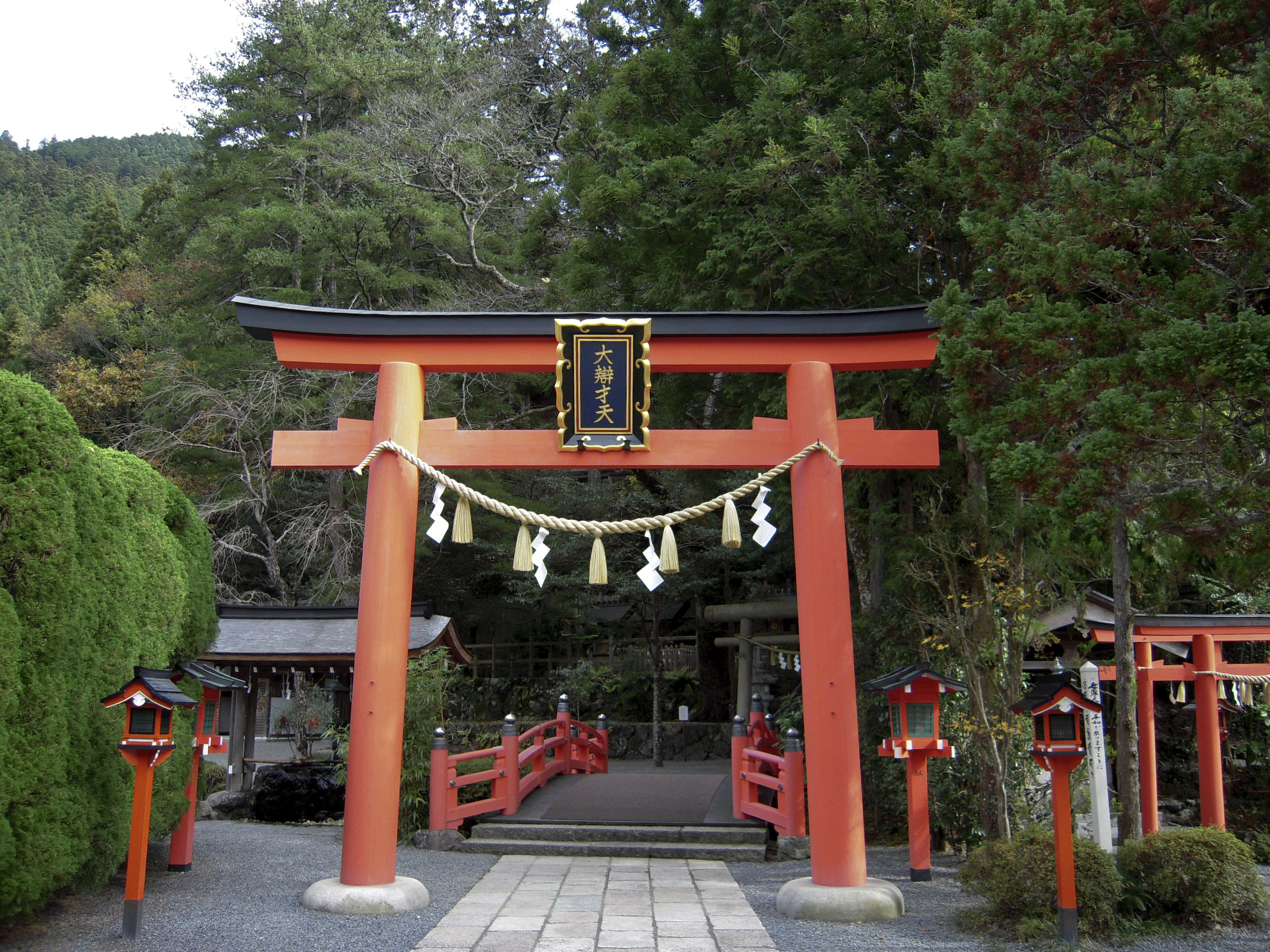 Torii gate of Tenkawa Grand Benzaiten Shrine.